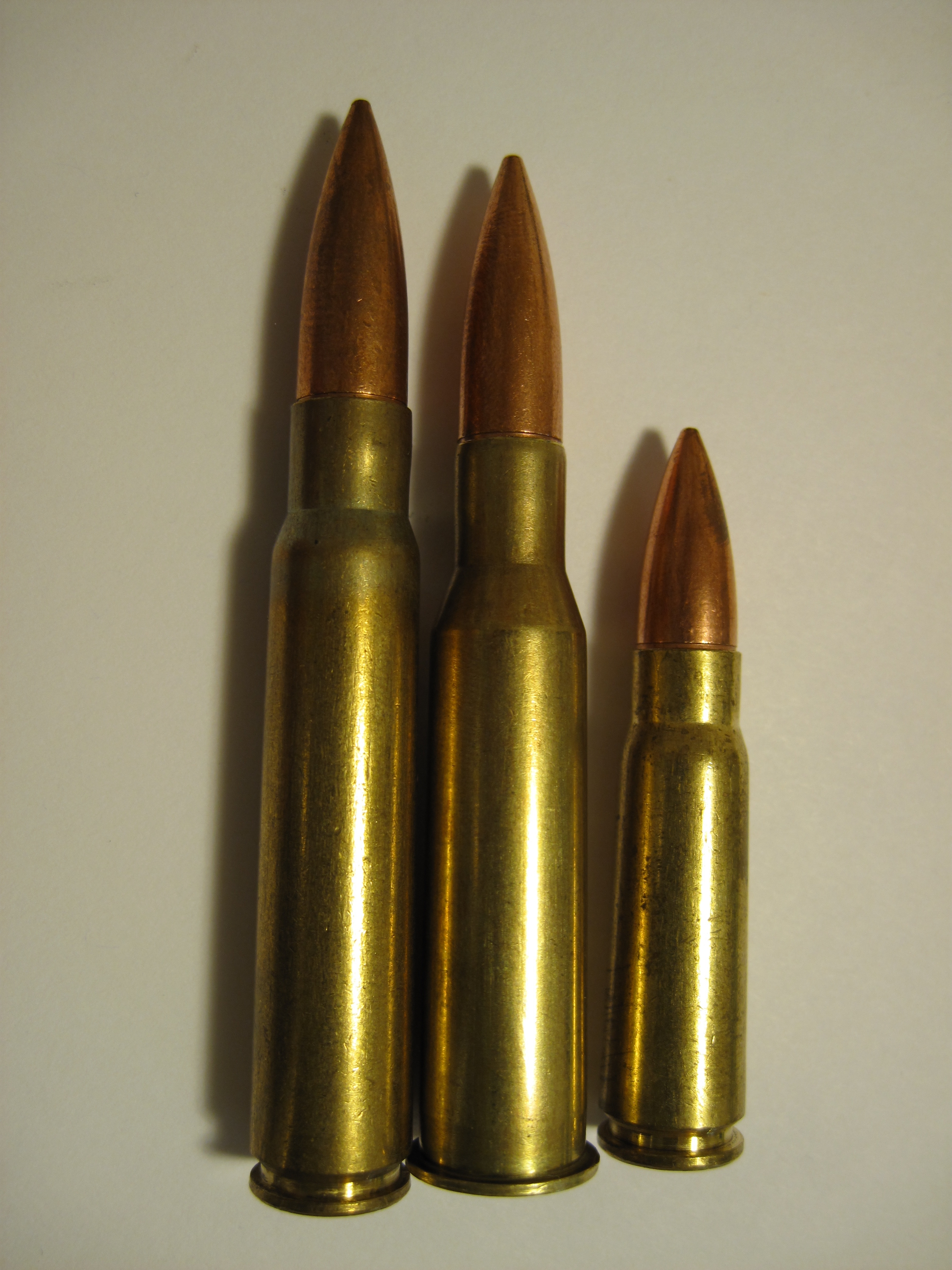 Comparison of rifle rounds. 7.92×57 Mauser, 7.62×54R, 7.62×39.